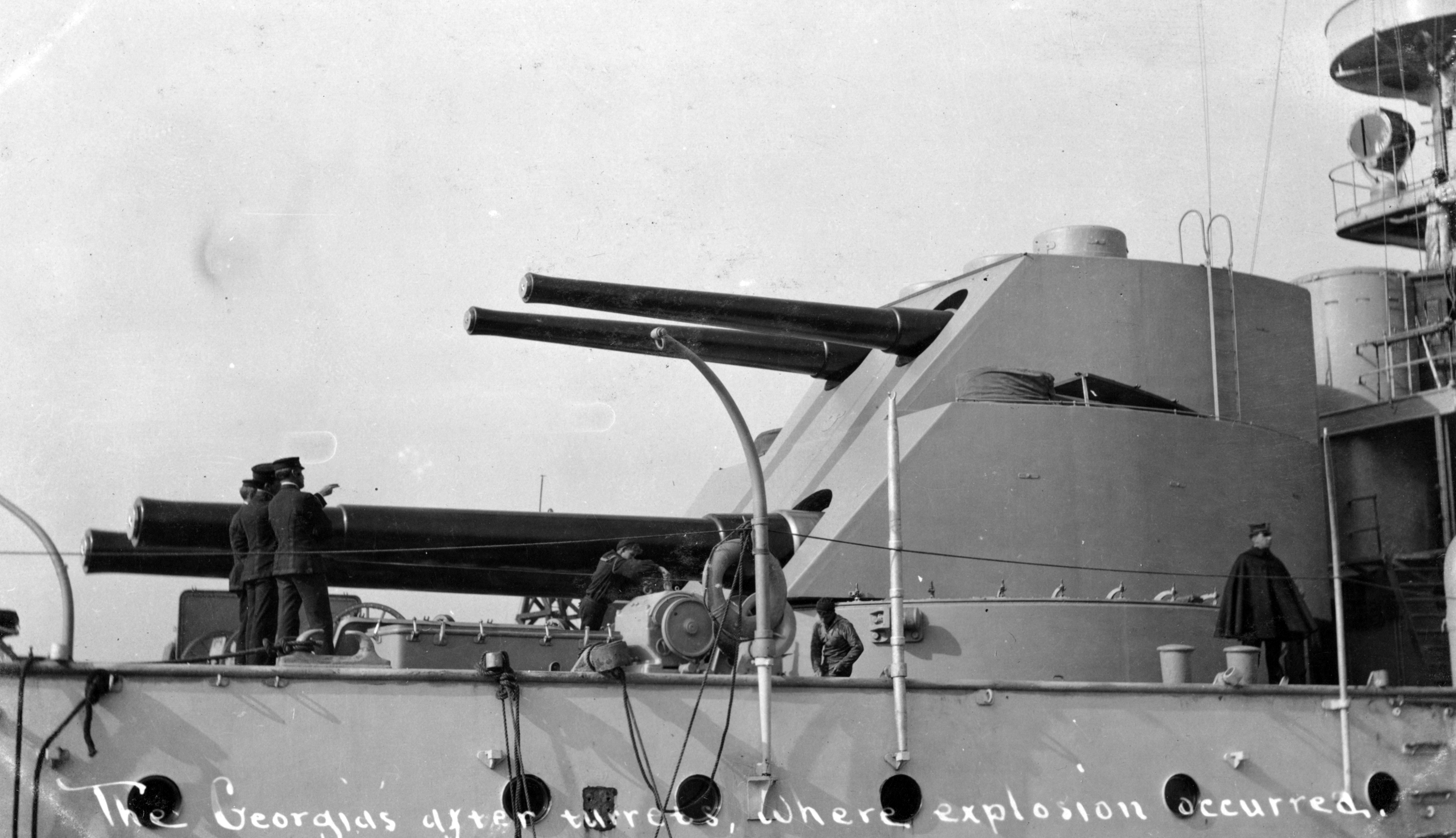 (Battleship # 15) Ship's after superposed 12/40 and 8/45 gun turret, where an explosion in the 8 (upper) level on 15 July 1907 took the lives of ten crewmen. The photograph was probably taken during the months following the accident. Collection of Chief Quartermaster John Harold. U.S. Naval History and Heritage Command Photograph.